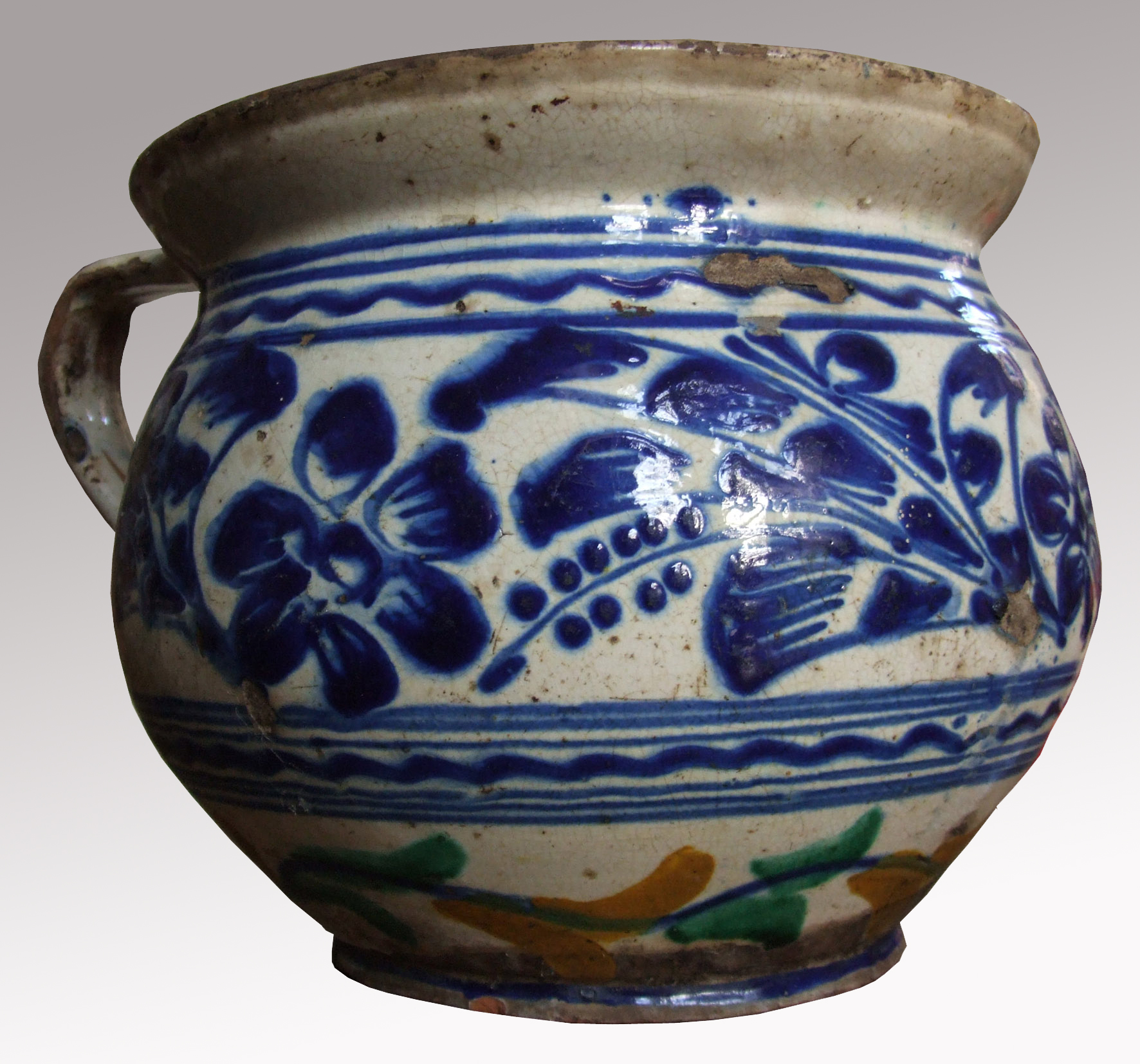 Hungarian pottery from second half of the 19th century